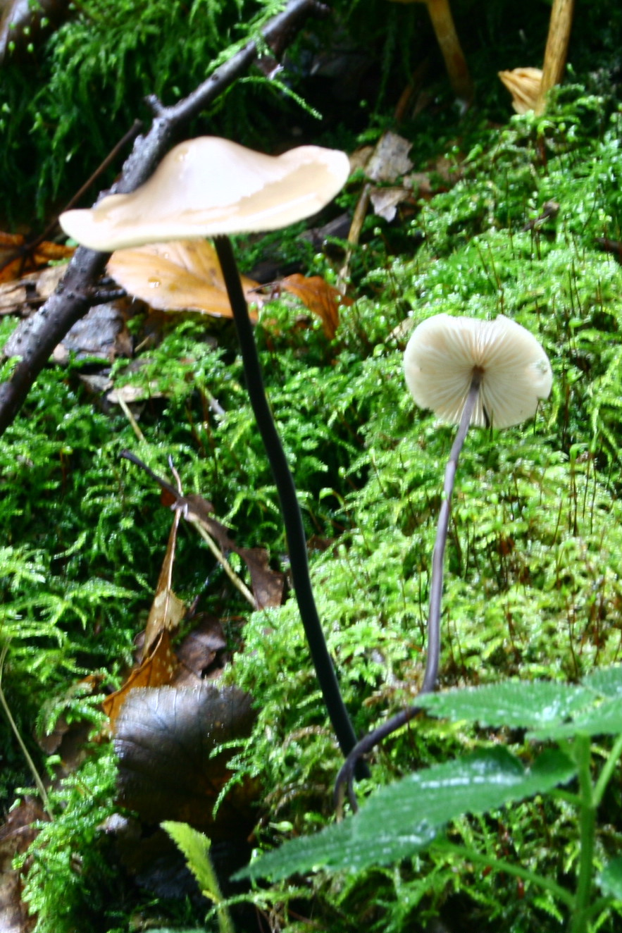 Marasmius alliaceus in a wood near Baden Baden, Germany.